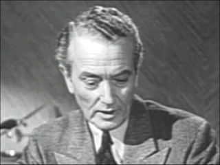 From the public domain movie Lady Gangster